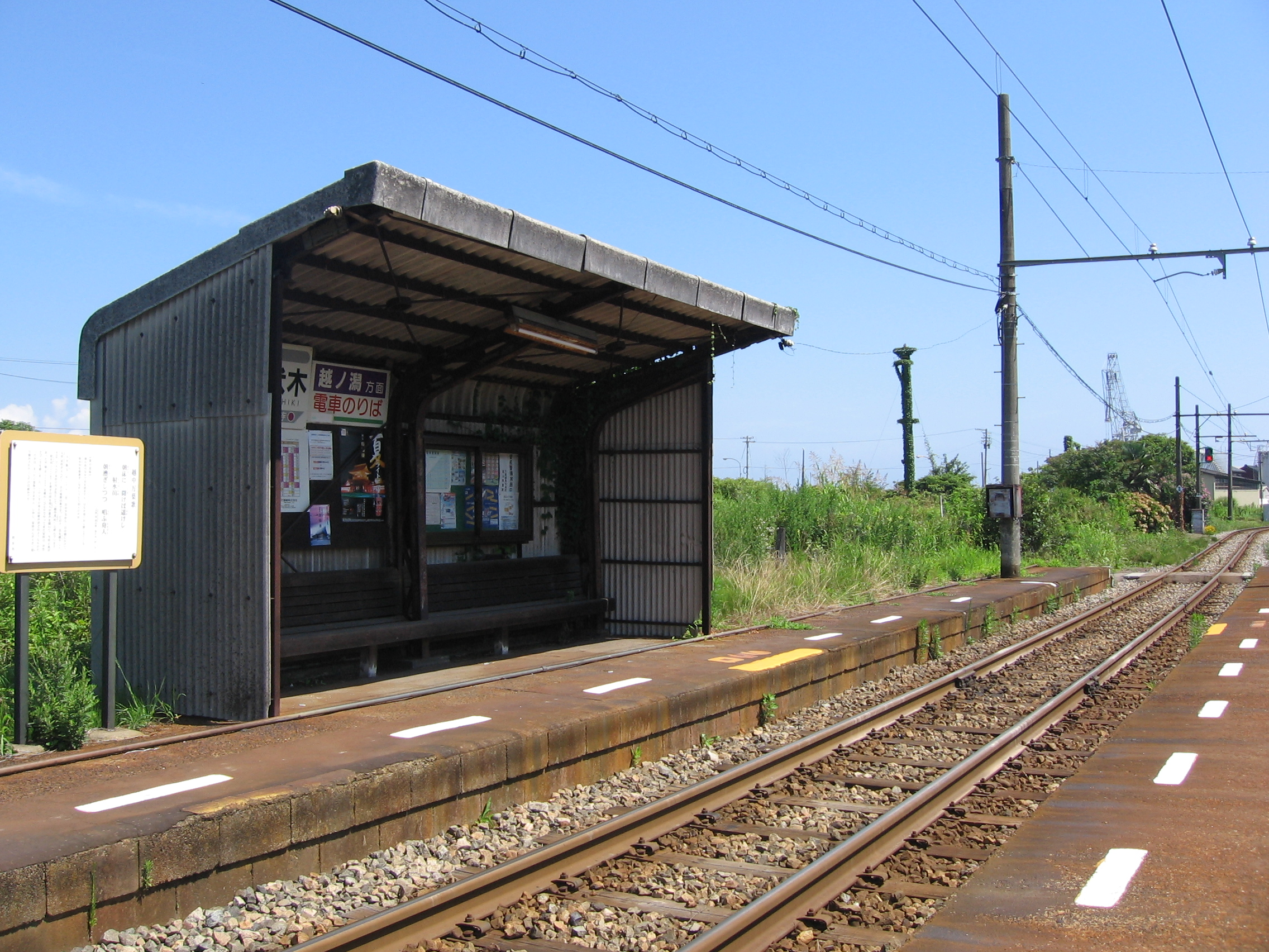 The platform of Naka Fushiki Station of Takaoka Tram Line of Manyosen. In Shoseimachi, Imizu, Toyama, Japan.